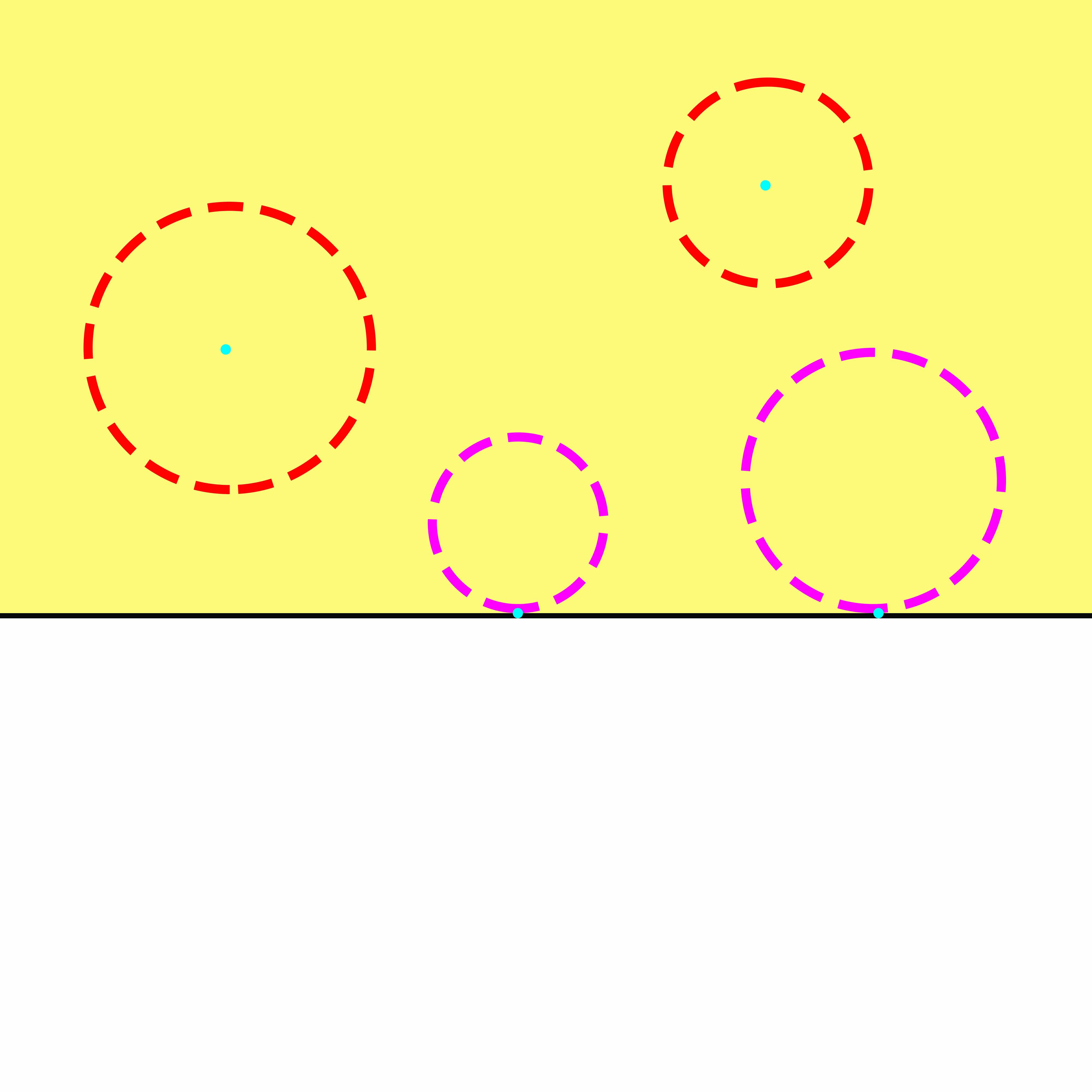 Representation by definition of the open Neighbourhood sets of the points in the Moore Plane also known as Nemytskii's tangent disk topology. , is a topological space. It is a completely regular Hausdorff space (also called Tychonoff space) that is not normal. It is named after Robert Lee Moore and Viktor Vladimirovich Nemytskii.